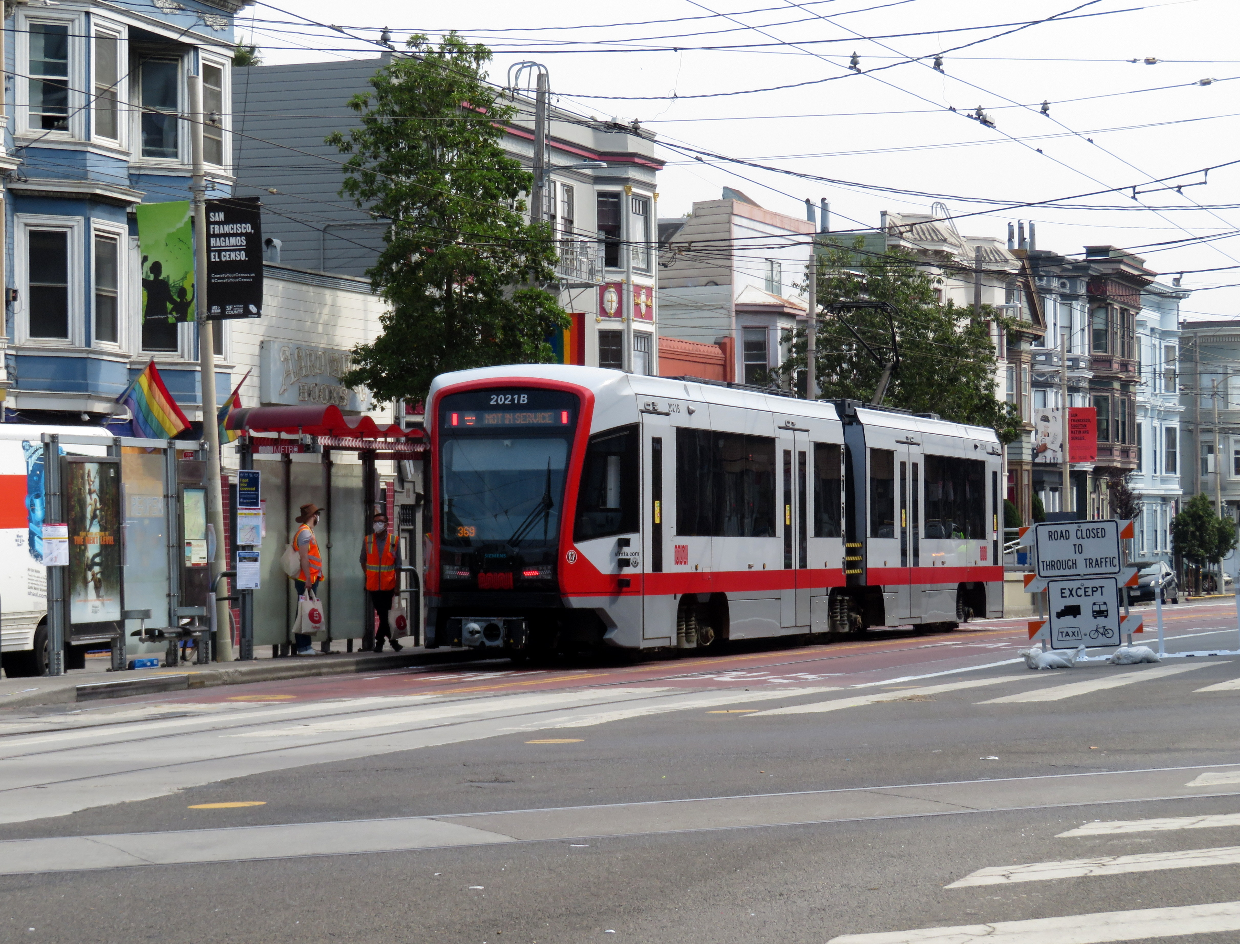 A J Church train at Market Street in August 2020. At that time, this was the inbound terminal for the line.